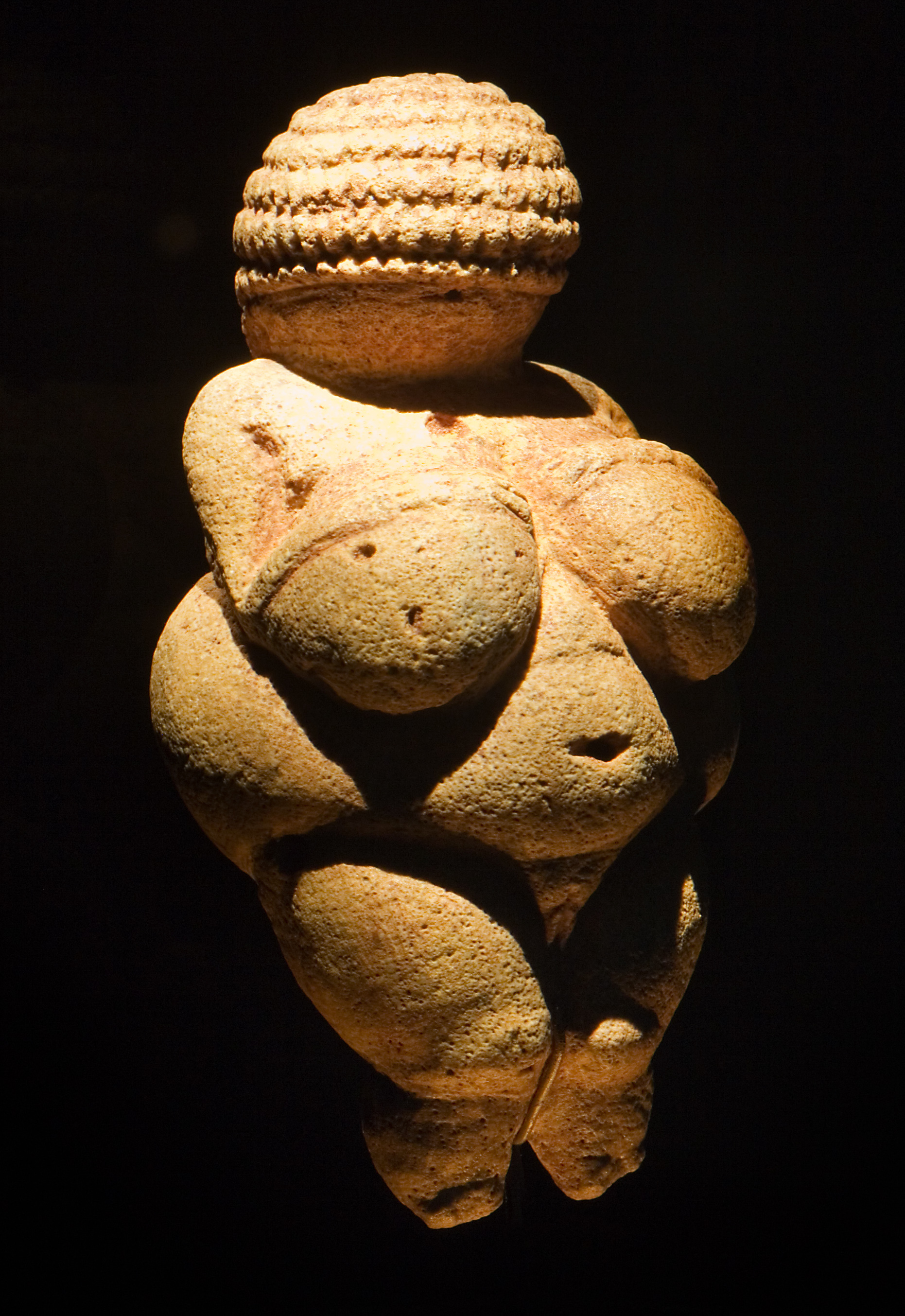 Willendorf Venus Natural History Museum, Vienna, Austria